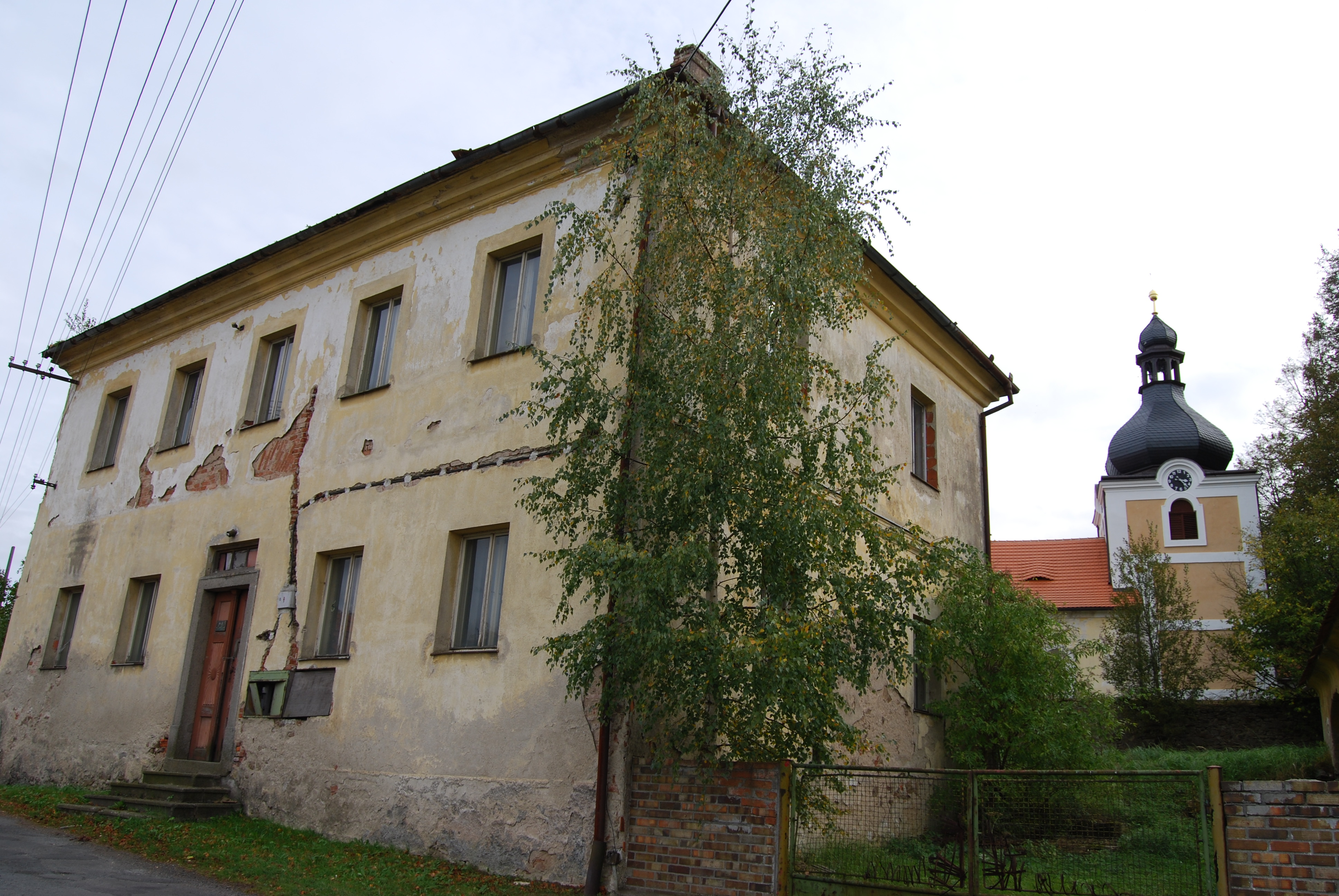 Budislavice, part of Mladý Smolivec village in Plzeň-jih District. Czech Republic. Fara belonging to the church